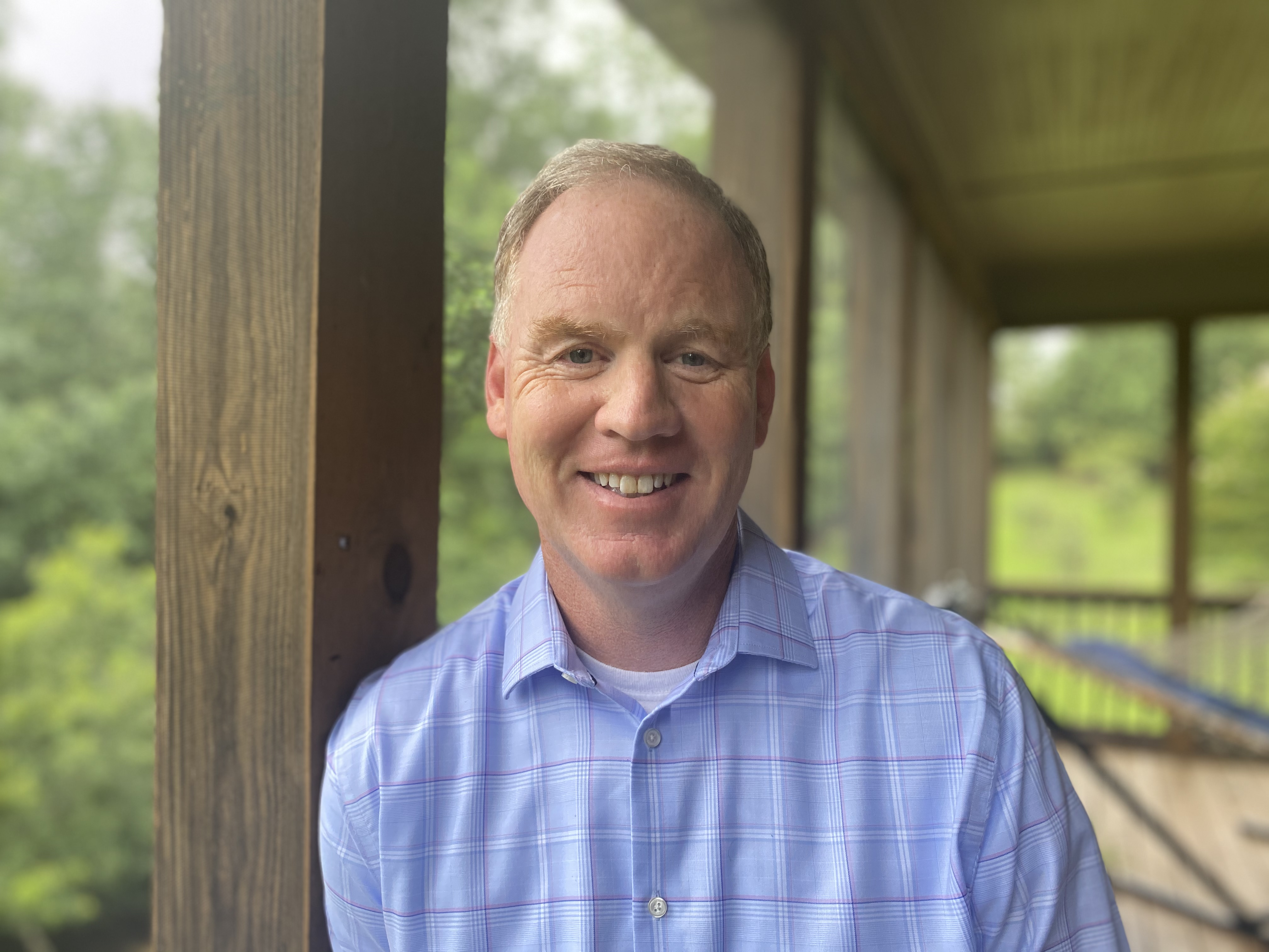 Profile Picture of Andrew C Billings, Processor University of Alabama